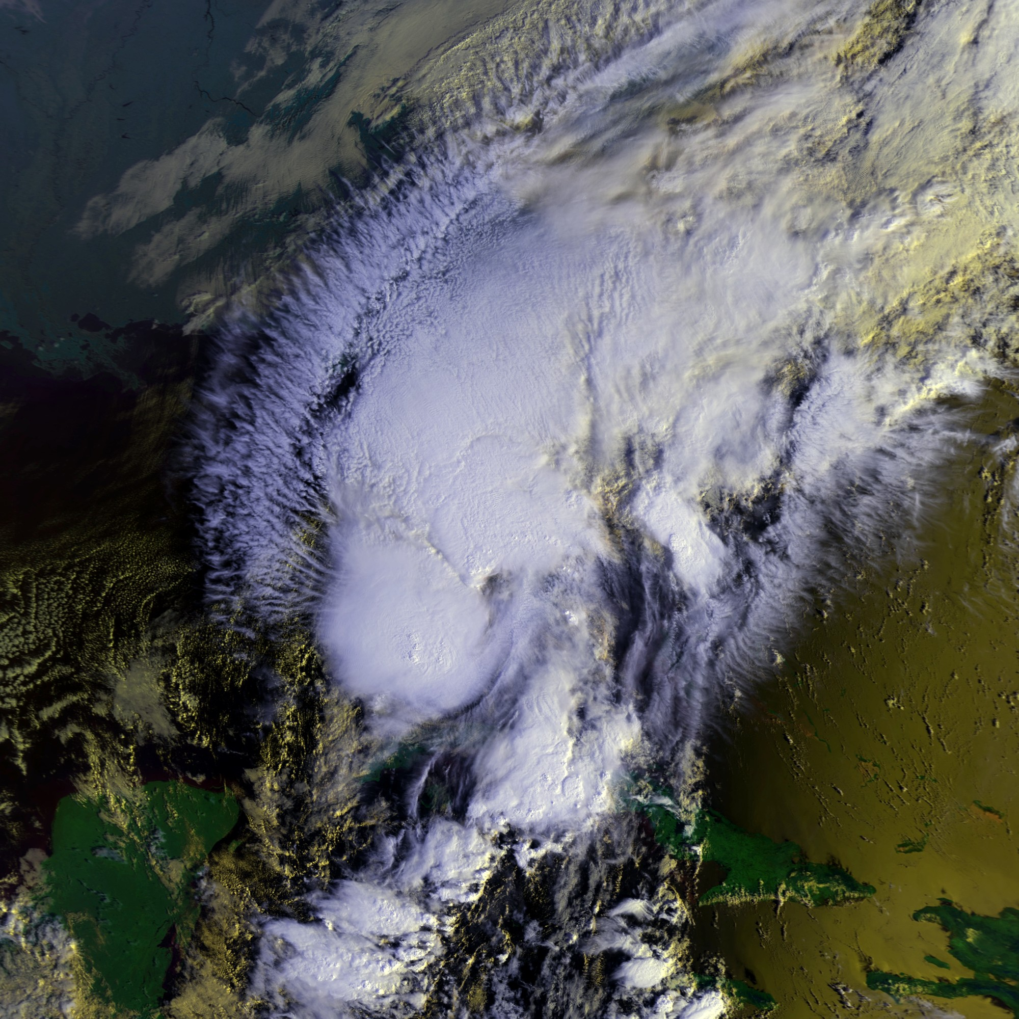 Hurricane Floyd on October 12 at approximately 1313 UTC. This image was produced from data from NOAA-10, provided by NOAA.